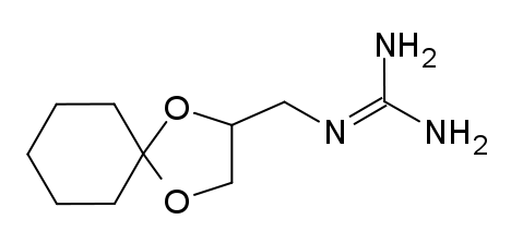 Structure of guanadrel